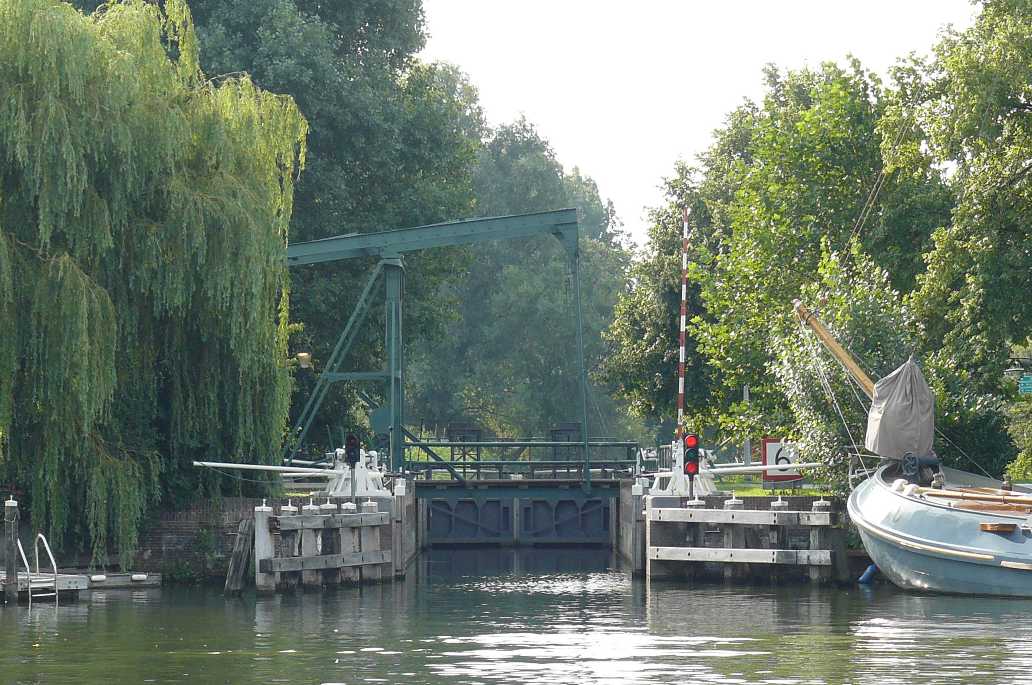 Keetpoort bridge and locks in Muiden (the Netherlands).